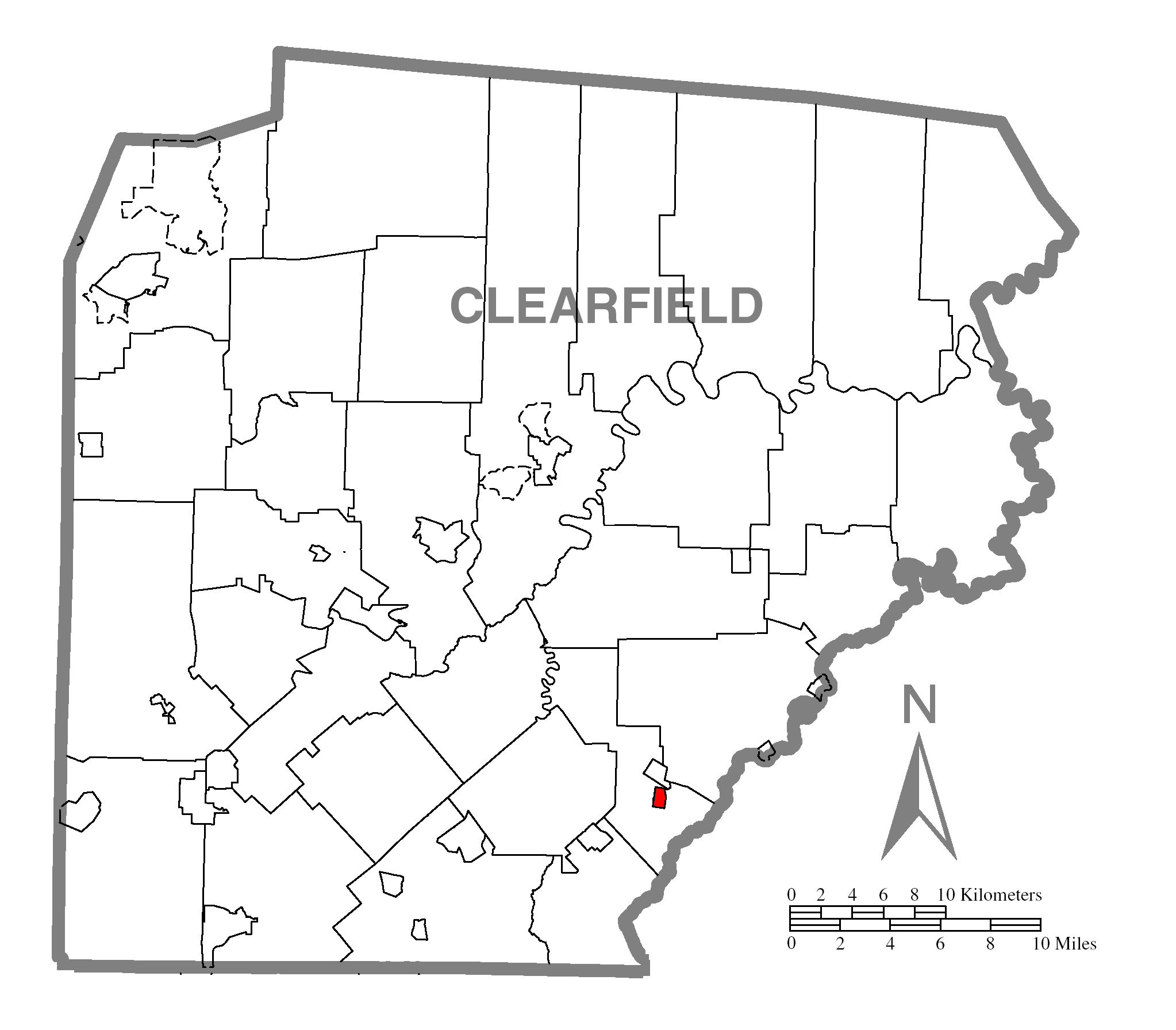 A map of Clearfield County showing Houtzdale, Pennsylvania (alternate) highlighted on the map.